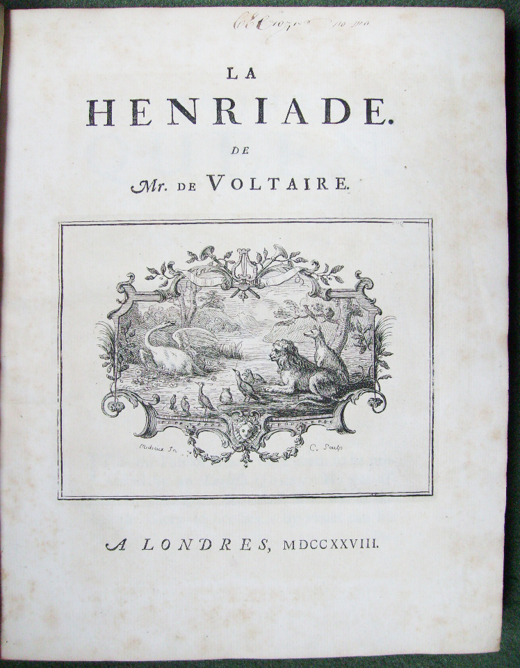 La Henriade de Voltaire à Londres en 1728